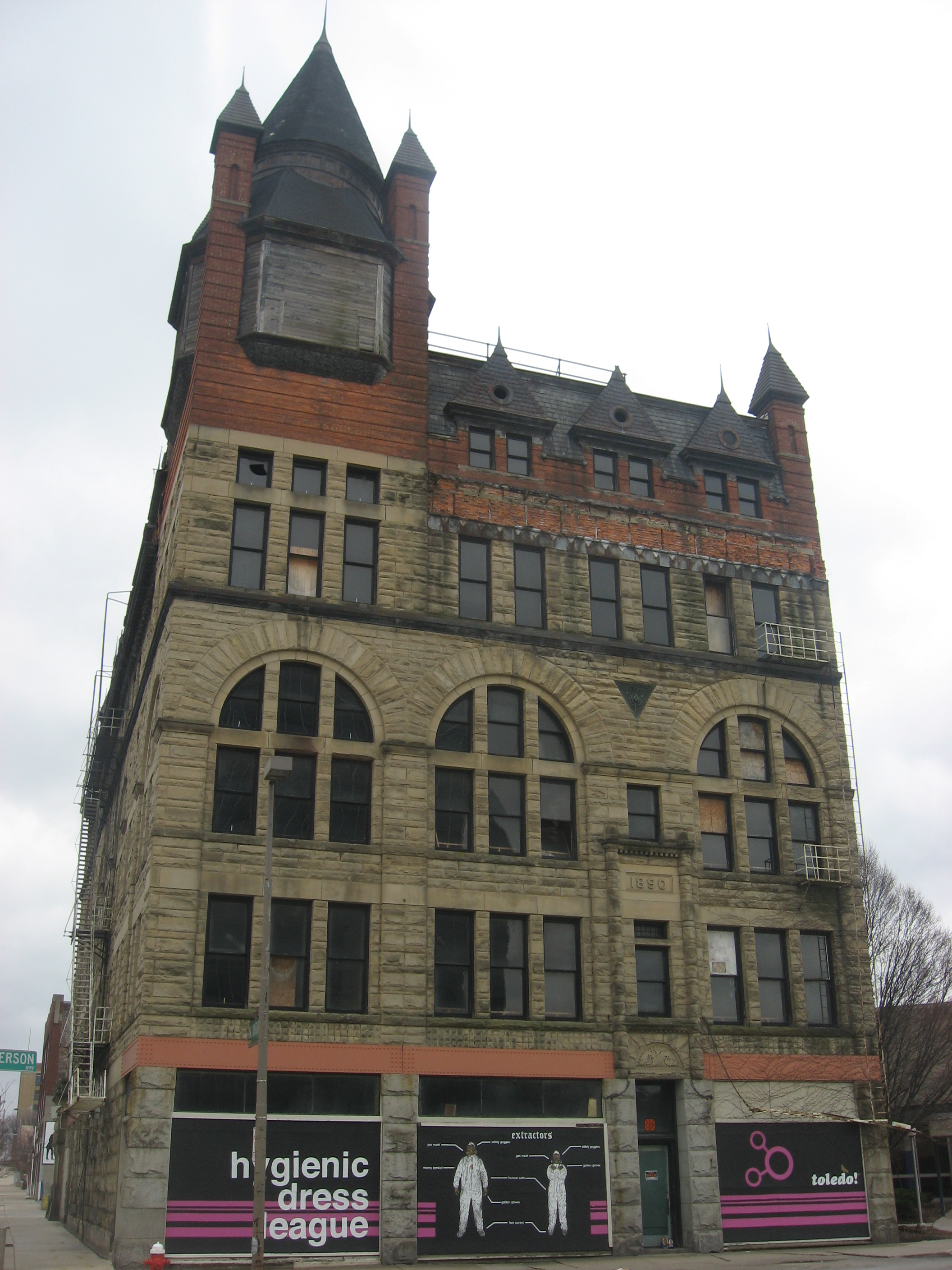 Front and western side of the Pythian Castle, located at 801 Jefferson Avenue in Toledo, Ohio, United States. Built in 1890, it is listed on the National Register of Historic Places.